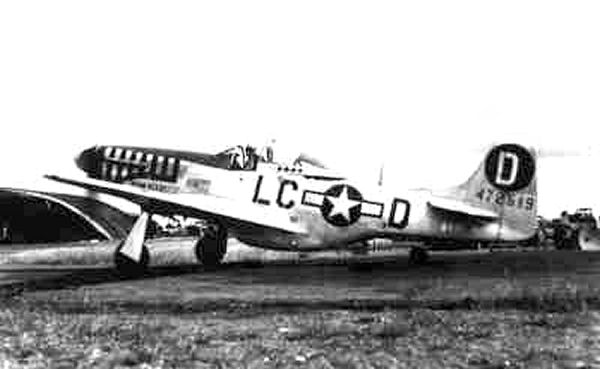 P-51D-20-NA Mustang Serial 44-72519, of 77th Fighter Squadron, 20th Fighter Group, at Kings Cliffe airfield, England.